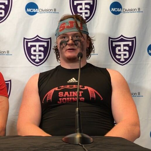 Ben Bartch, offensive lineman for the Saint John's Johnnies football team, at a press conference following a 2019 Tommie-Johnnie Game in Allianz Field in St. Paul.